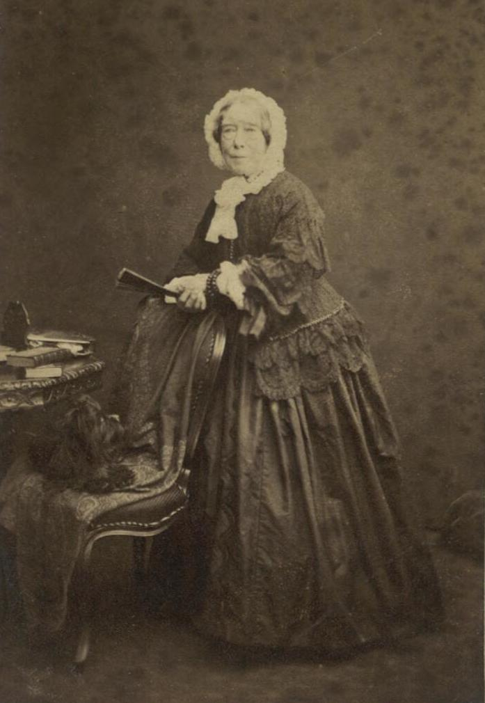 A portrait from the Welsh Portrait Collection at the National Library of Wales. Depicted person: Angharad Llwyd – British antiquarian